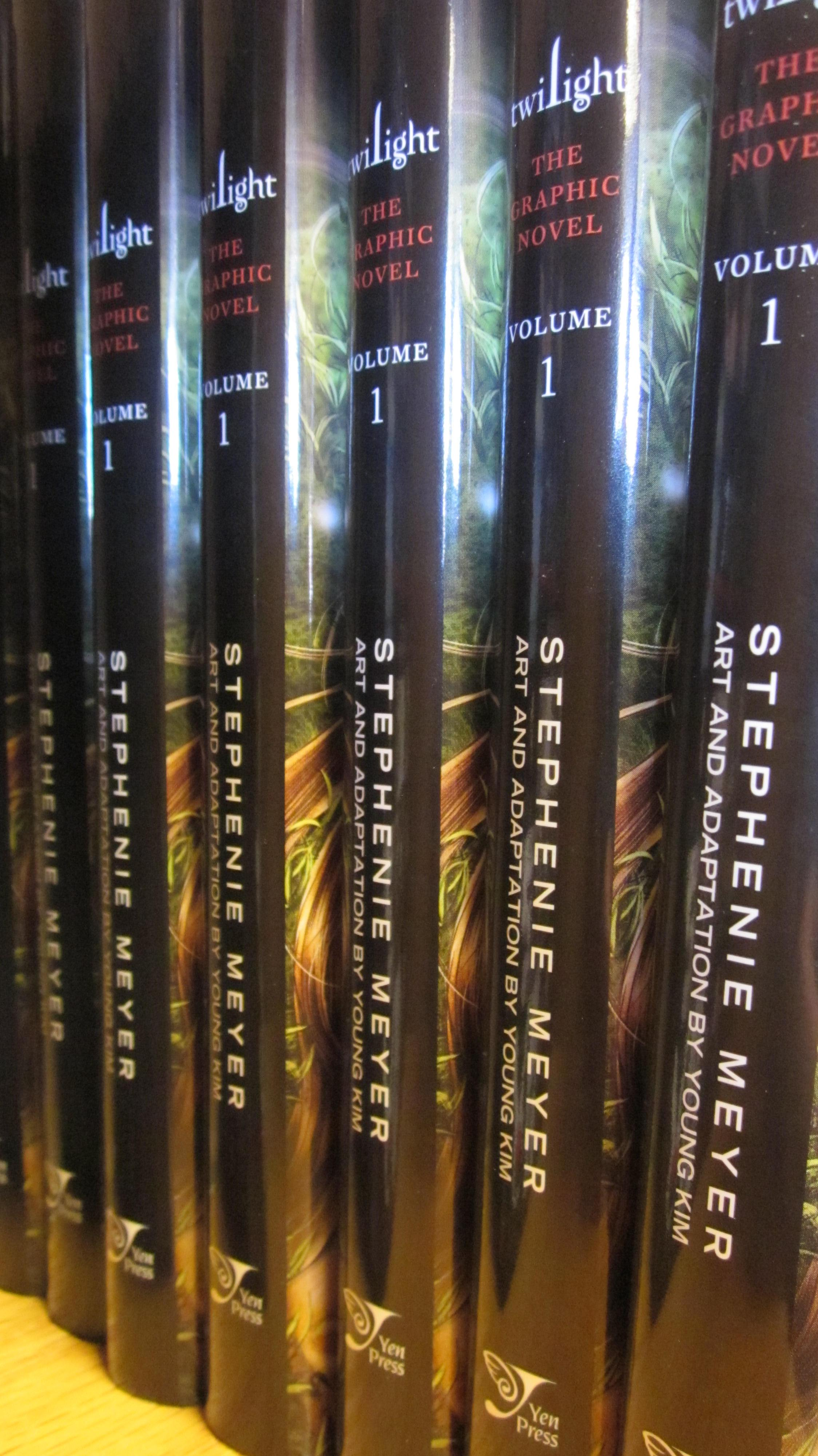 Copies of Twilight the Graphic Novel at Borders on Powell Street in San Francisco, California.